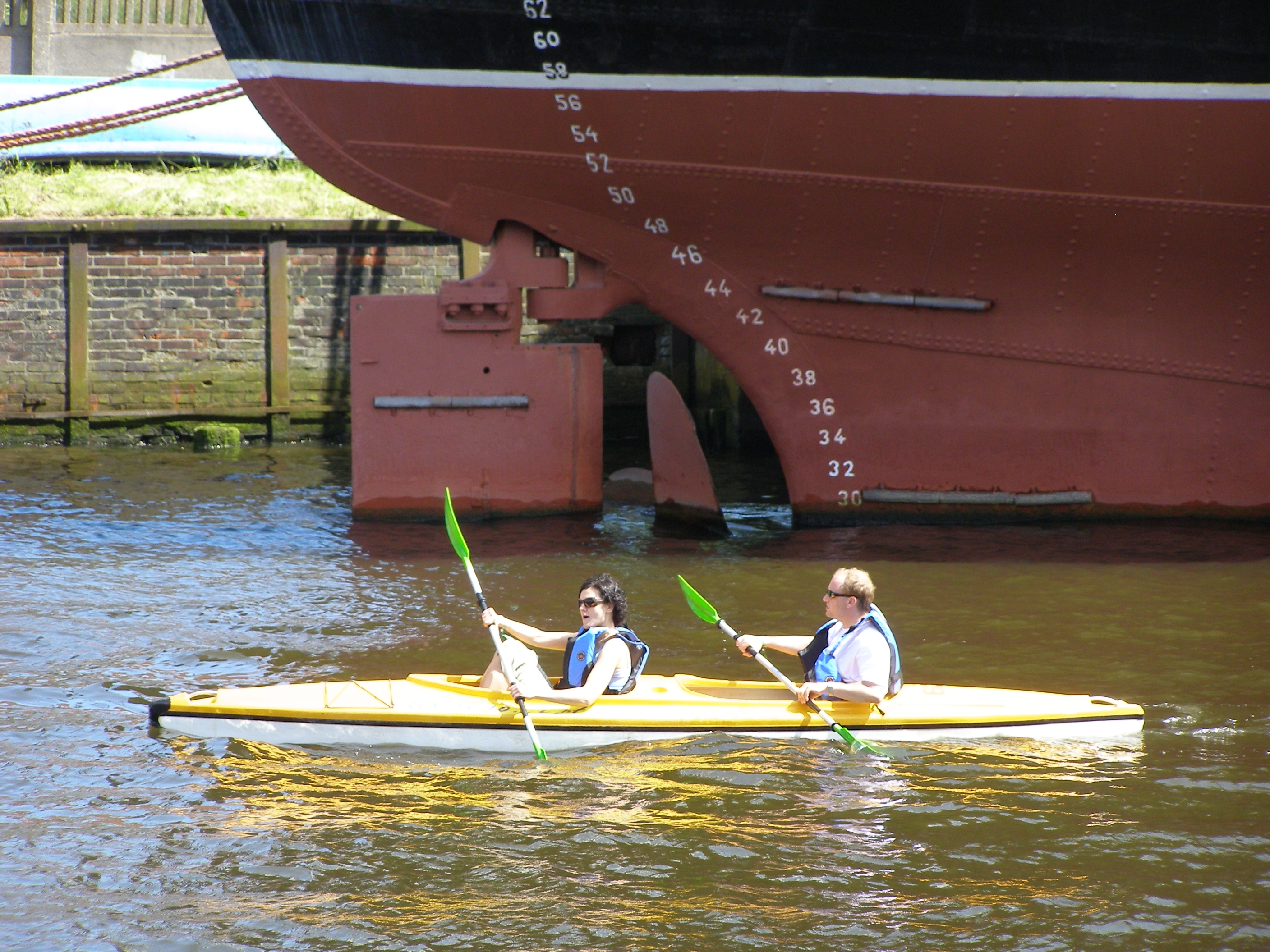 Gdańsk - kayaking on the Motława